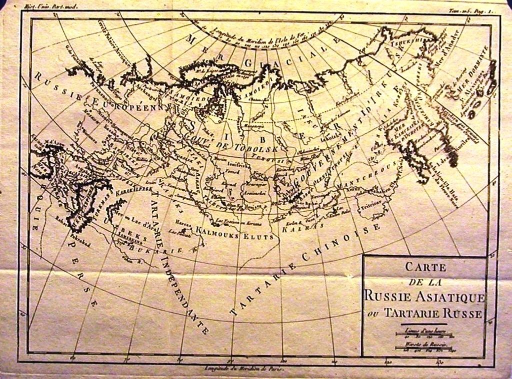 Map from Louis Brion de la Tour, depicting Asian Russia, then also called Russian Tartary and now Siberia. This is a copper engraving, published in "Histoire Universelle depuis le commencement du monde jusqu'à présent", livre 65 - "L'Histoire de Russe jusqu'à la mort d'Alexis Michaelowitz en 1676". Its published in Paris by Moutard.